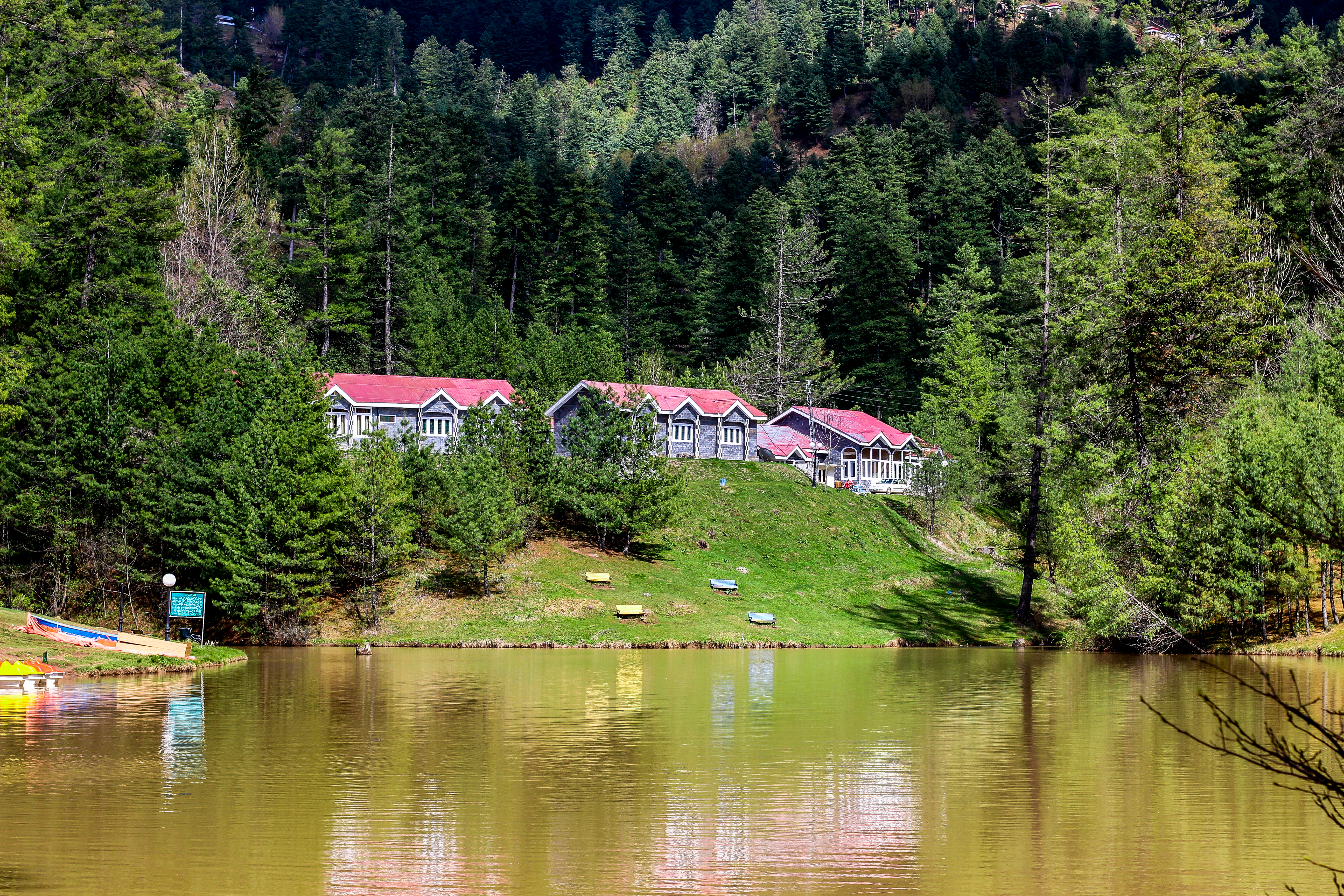 View of Resorts at bank of Man Made Lake in District Rawalakot, Kashmir.